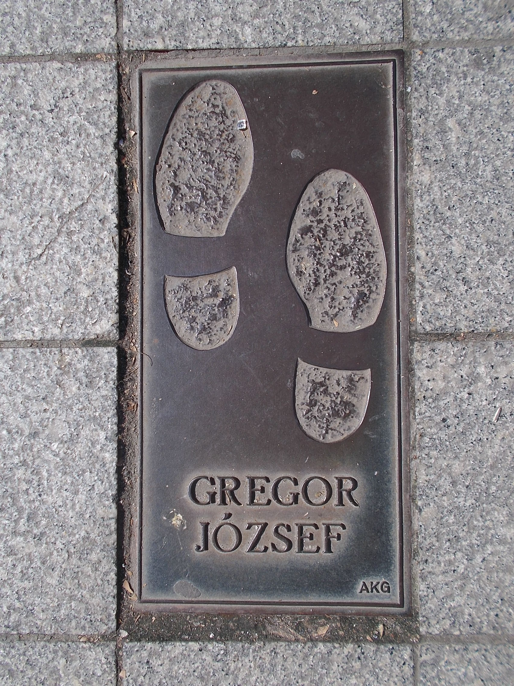 Shoeprint of József Gregor. - Immortal Promenade, part of Nagymező street, Budapest District VI.